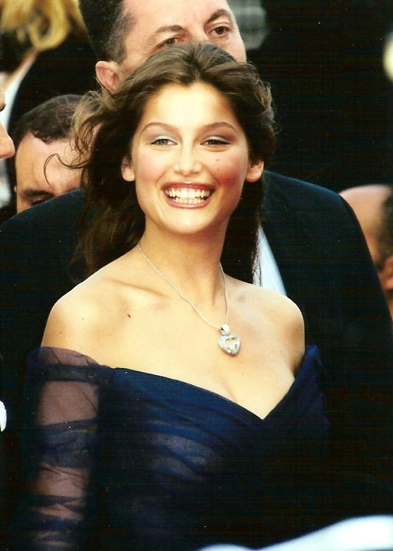 Laetitia Casta, French supermodel